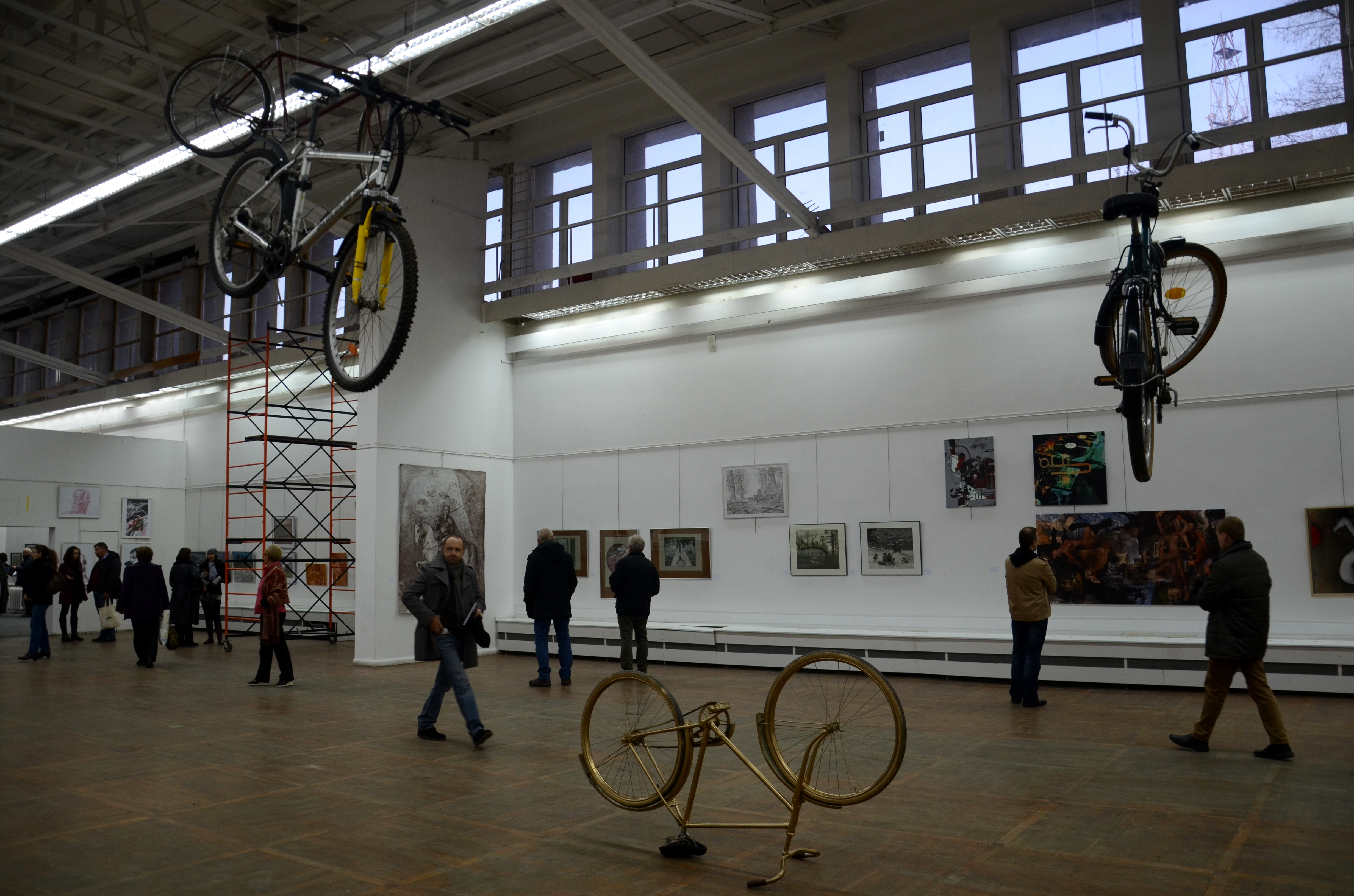 Opening of the exhibition graphics section of the Belarusian Union of Artists "Tour de Belarus" in the Palace of Arts, Minsk, October 23, 2014.